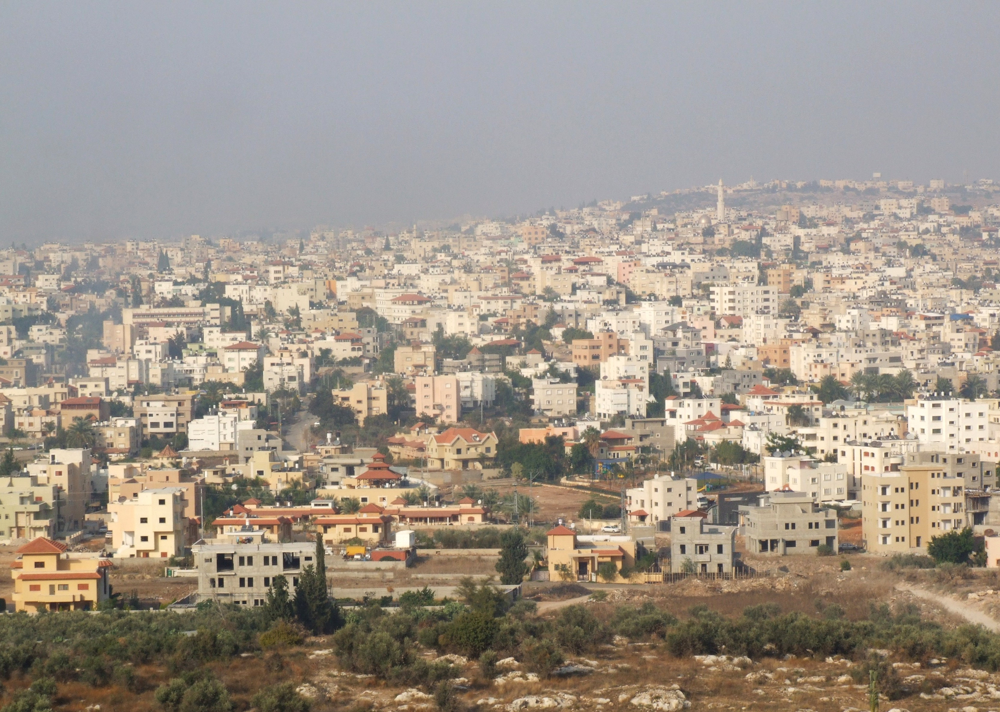 Taybe